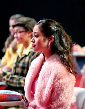 Athena appears in High School Musical Onstage as Sharpay Evans in 2007